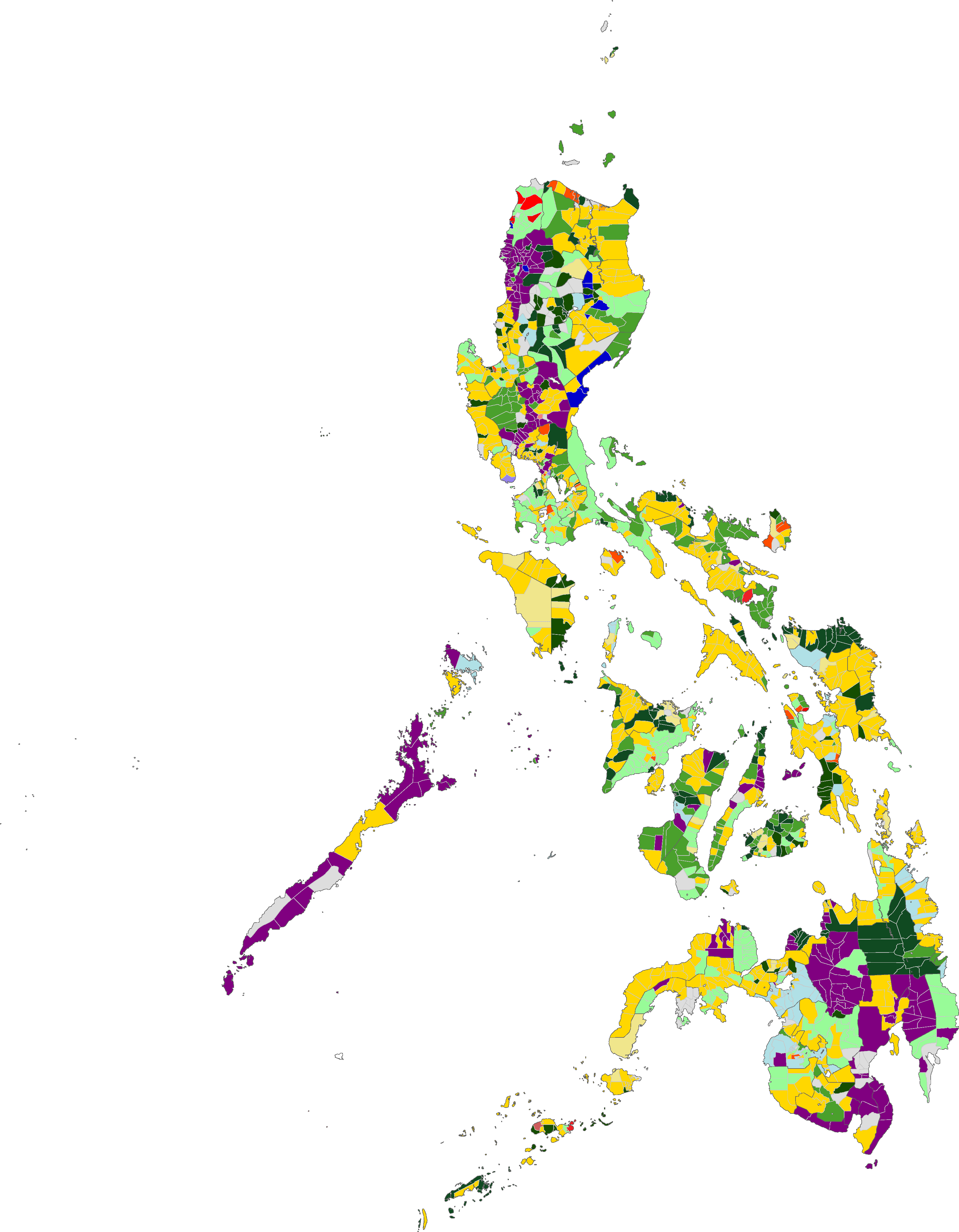 Map showing which party won the 2019 Philippine mayoral elections